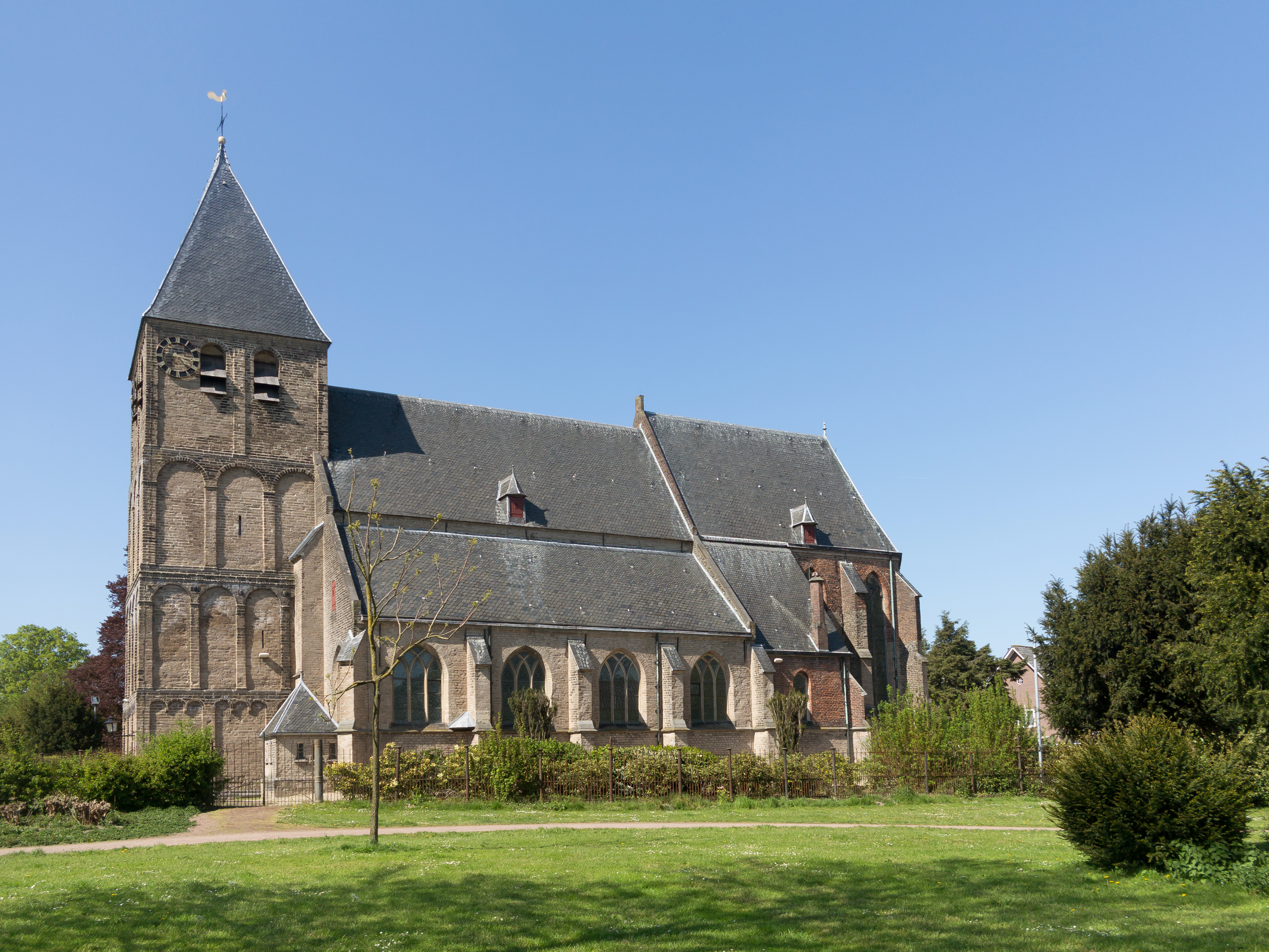 Rheden, main church